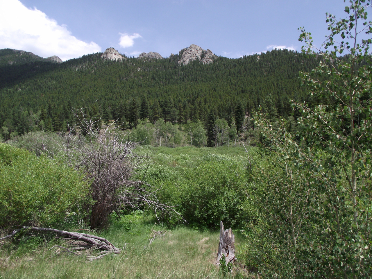 Rock formations on Tremont Mountain in Golden Gate Canyon State Park, Gilpin County, Colorado.